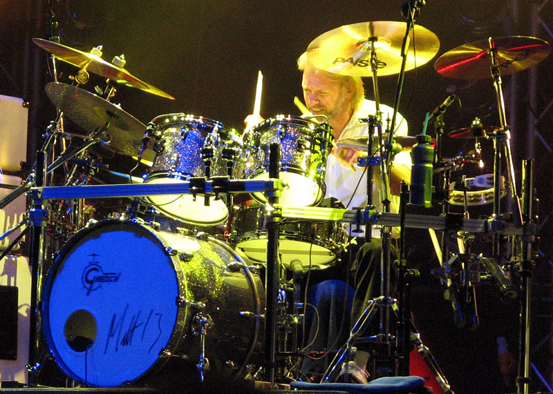 Matt Letley of Status Quo in Brunnsparken, Örebro, Sweden.